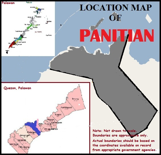 Location map of Barangay Panitian, Quezon, Palawan.